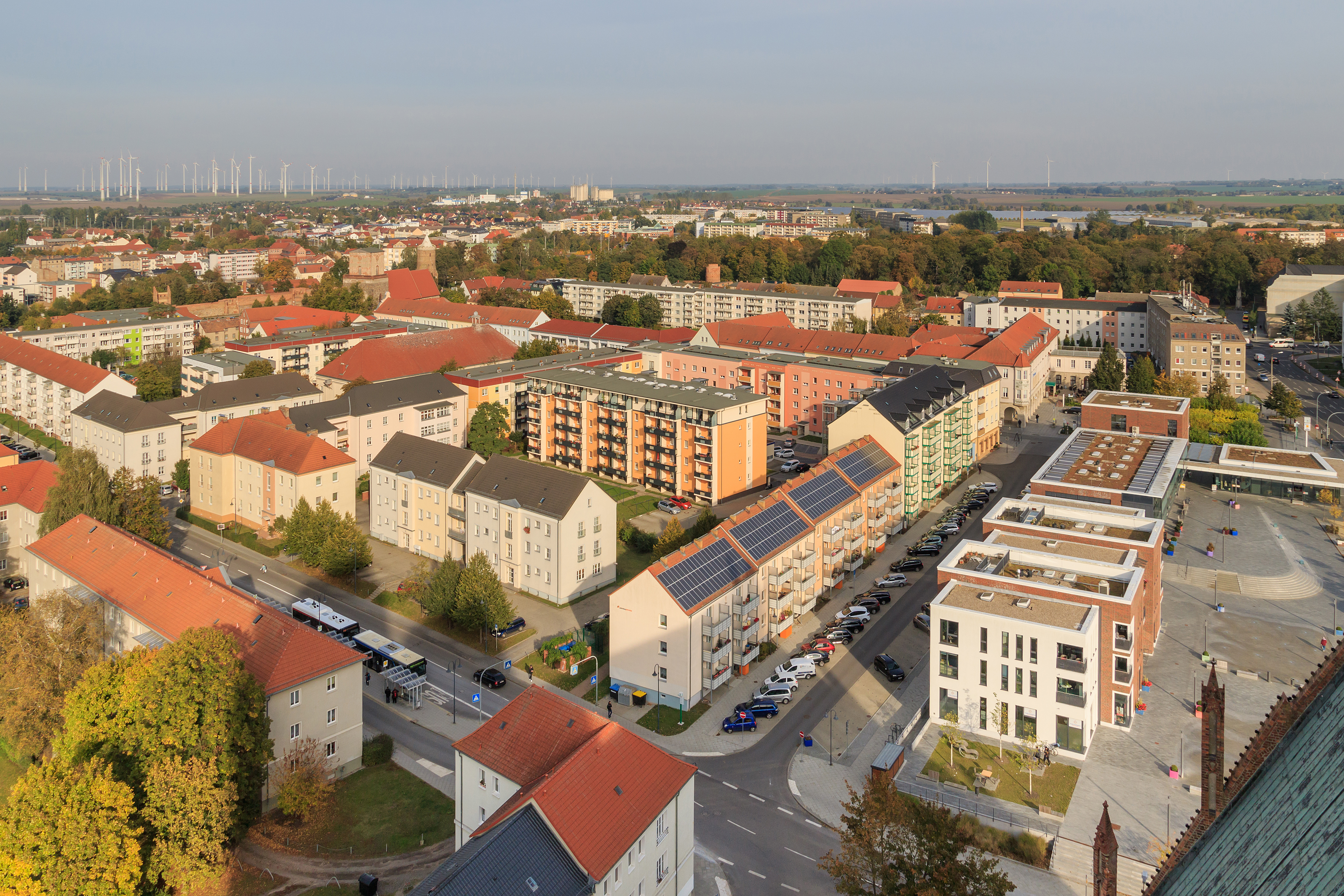 View from St. Mary Church in Prenzlau, Brandenburg, Germany